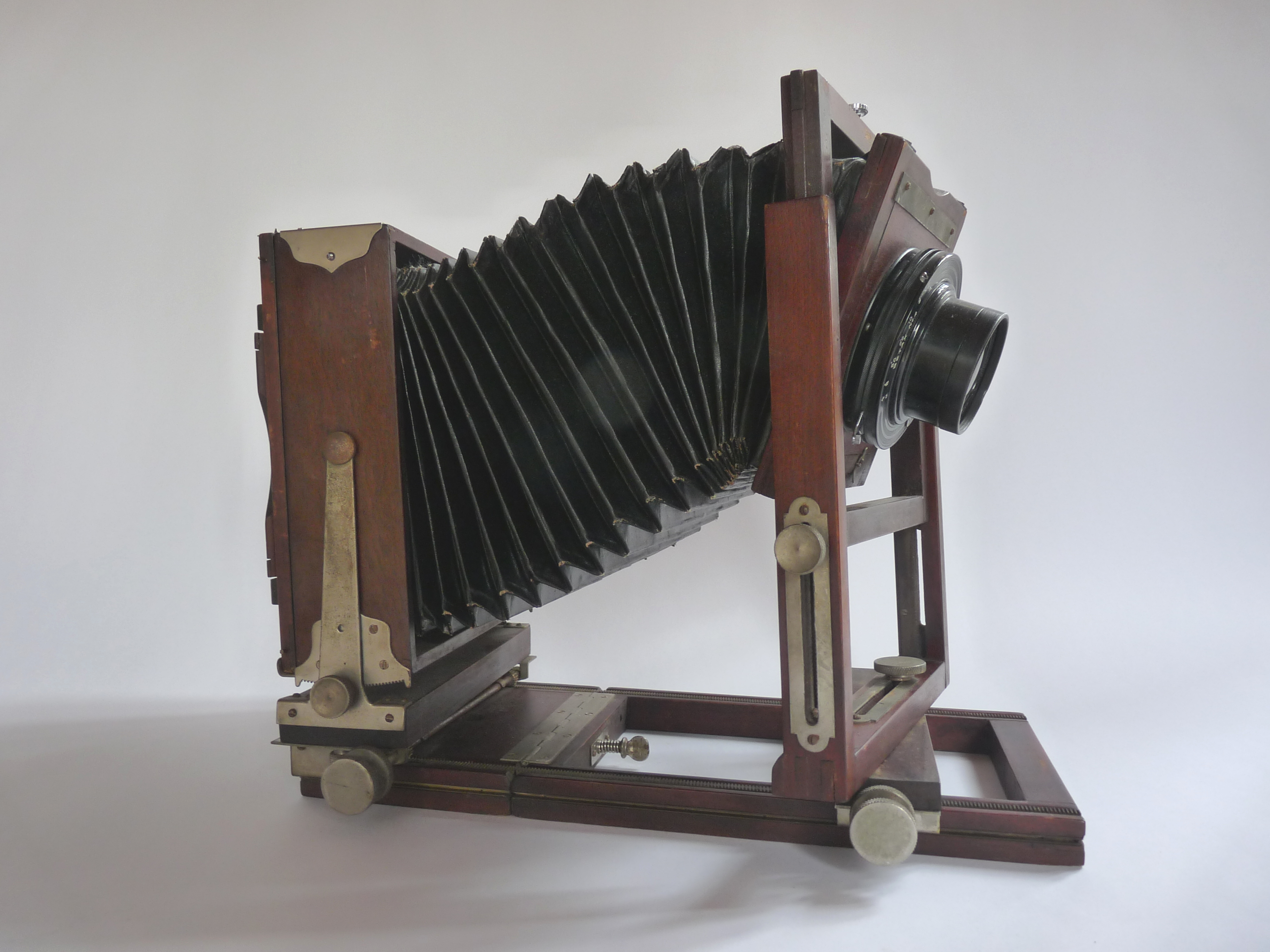 Korona view camera type: 5x7 large format circa: 1910s? Lens: Grundlach amastigmatic F6.8 (serial 213830) shutter: Betax #4 stamped on bottom: 399 condition; needs work Camera owner: Charlie Graf film holder: Eastman portrait film holder